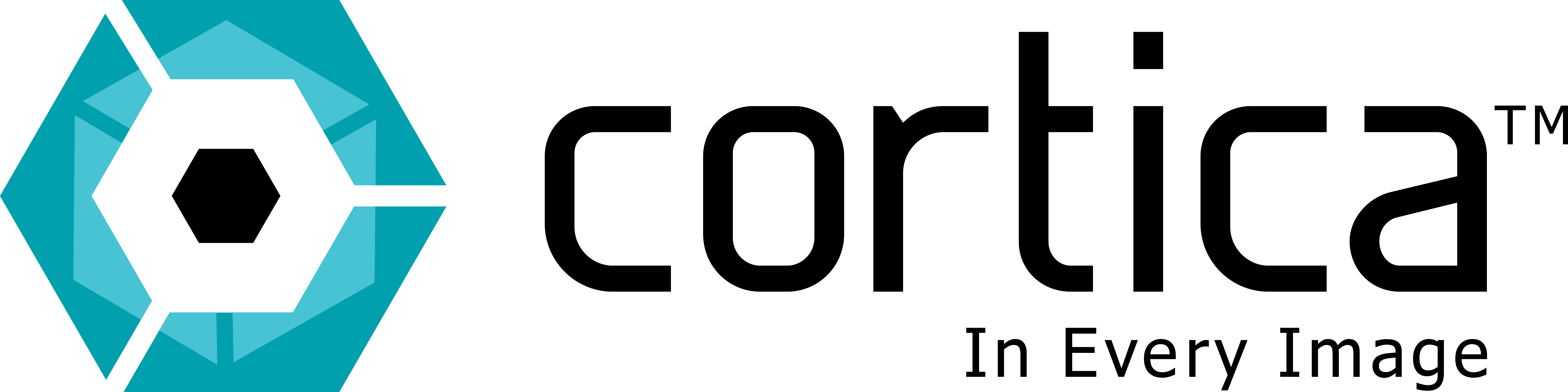 Cortica In Every Image